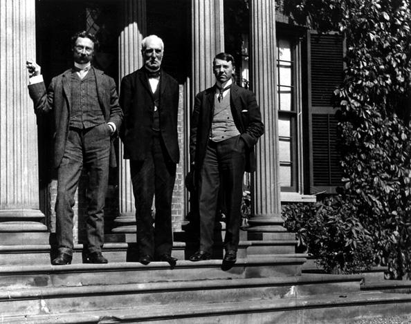 Goldwin Smith and two unidentified men at the Grange, Toronto, Ontario, Canada. Photo by M. O . Hammond, of "The Globe".